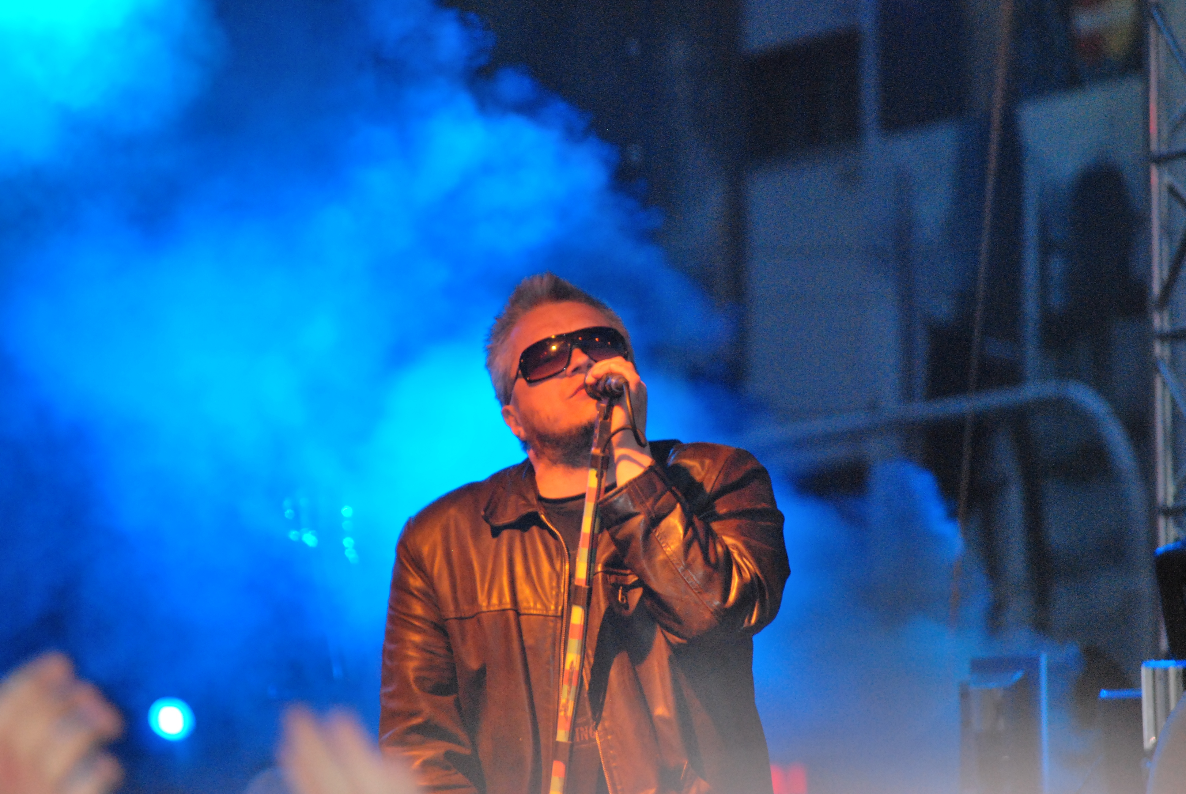 Muniek Staszczyk (T.Love), Festival of Łódź 2011